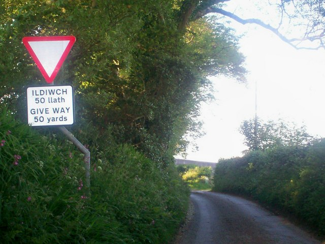 Bendy 'Give Way' Sign near Crunwere House, Llanteg Junction at the end of the Crossland's Road. Looks like a new sign as I do not recall them being bilingual before.